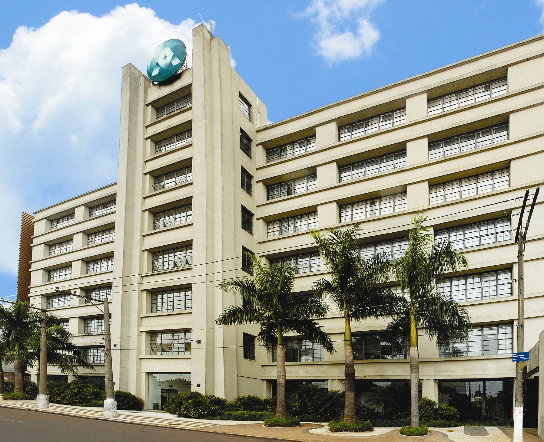 Anhembi Morumbi Laureate University